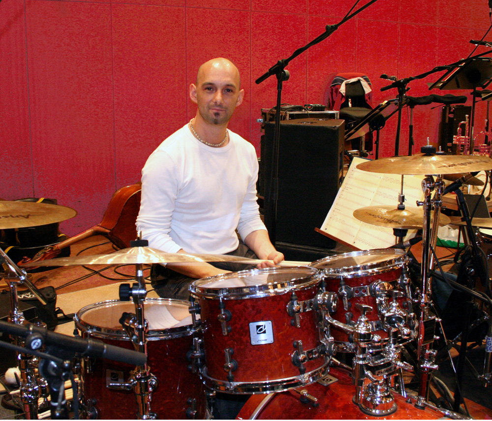 picture of Christian Lettner